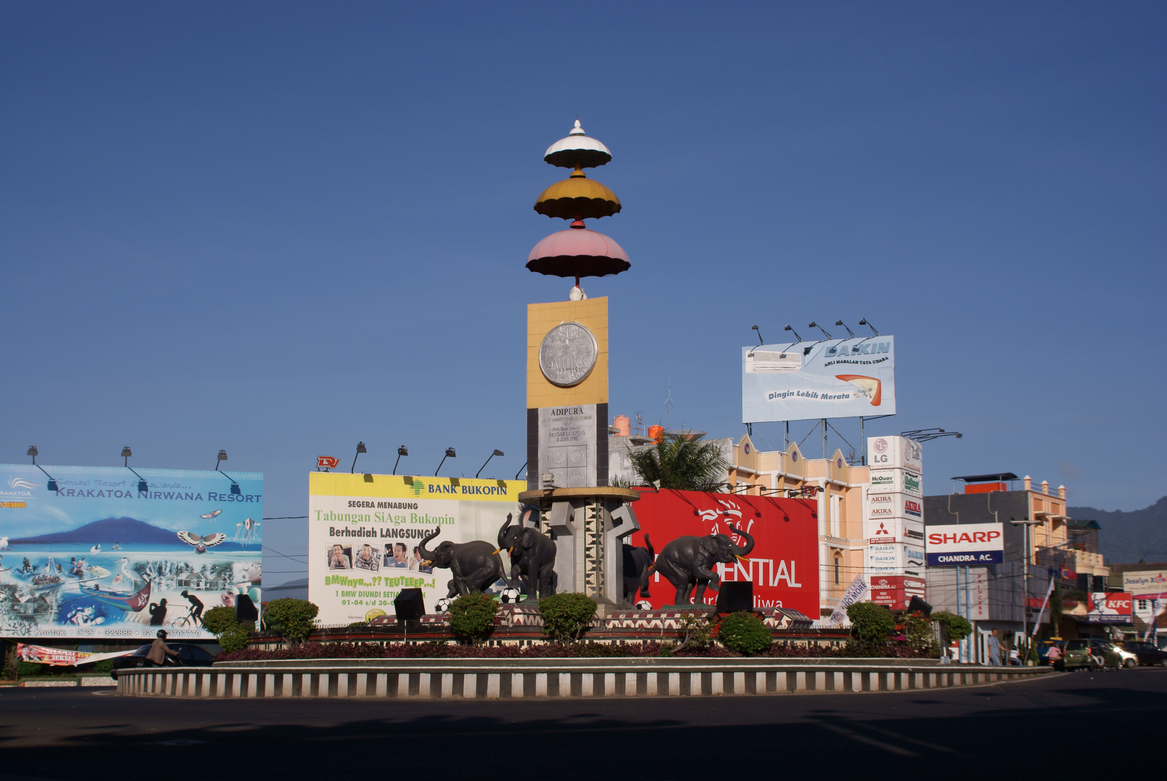 Adipura Monument, Bandar Lampung, Indonesia